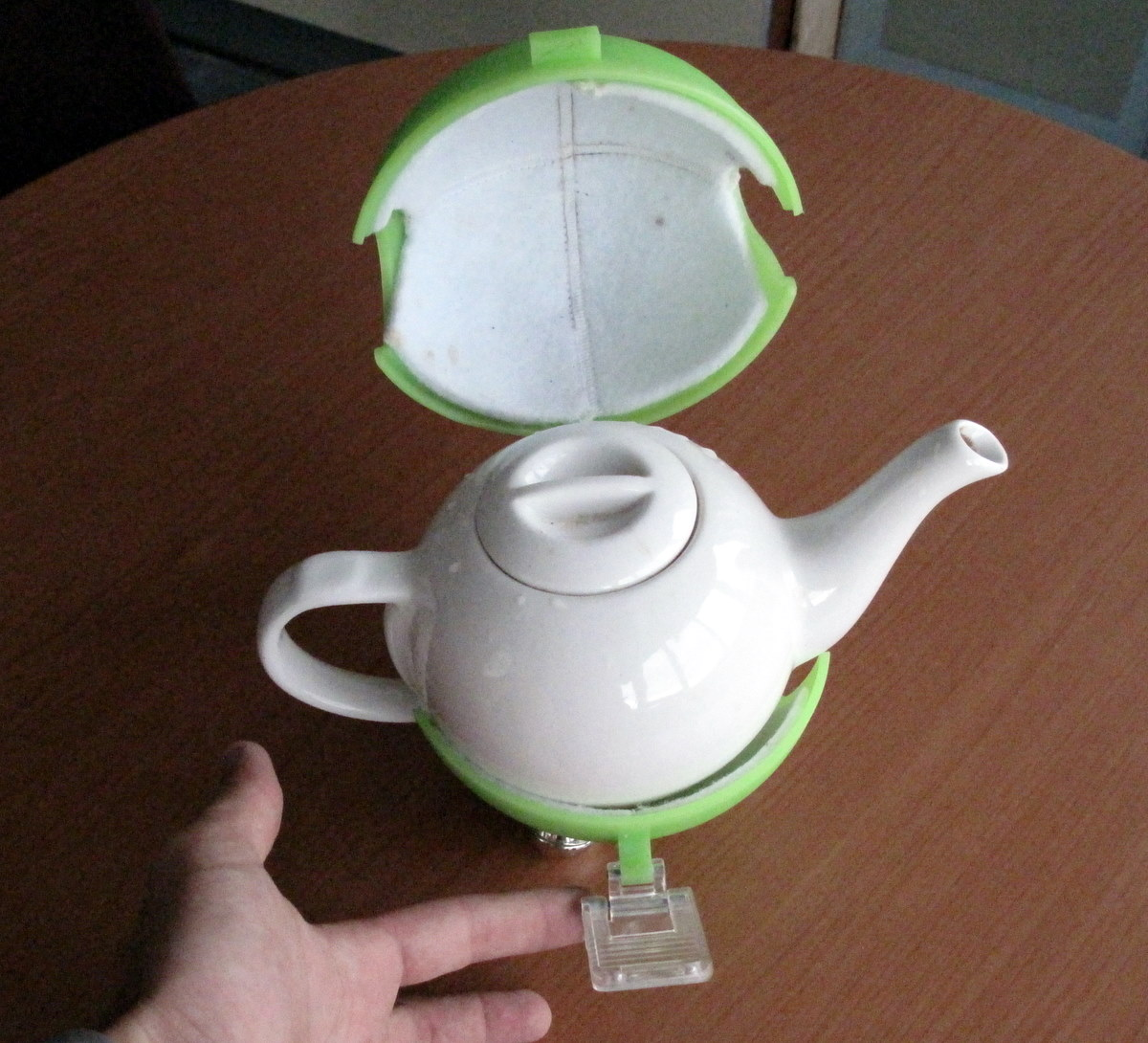 ... that keeps the cover on top.